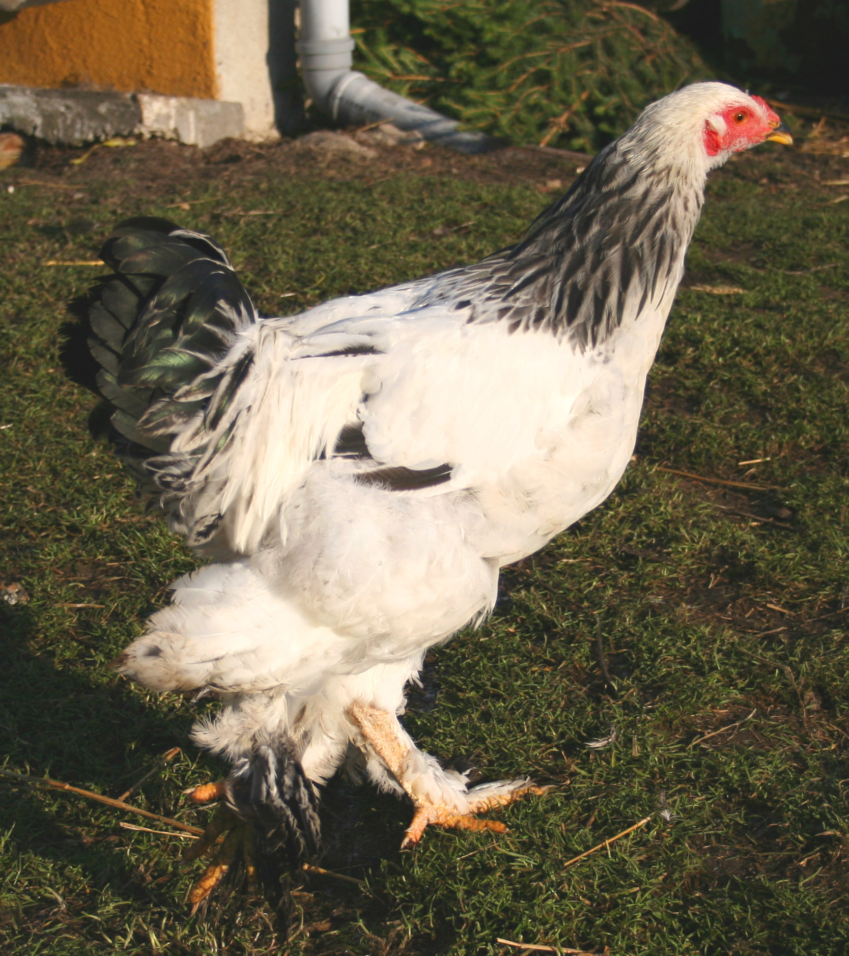 Brahma (chicken)